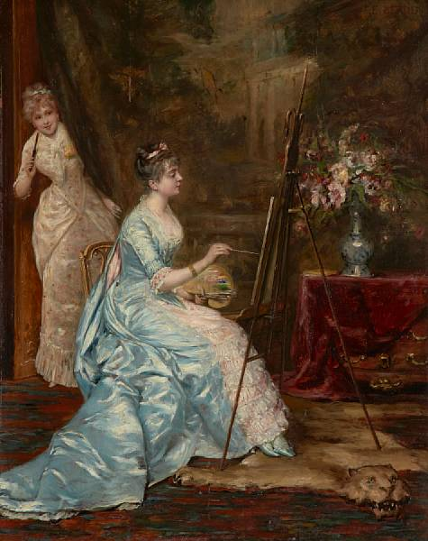 A stolen glimpse. Signed F.E. Bertier. Oil on panel, 94 x 73 cm